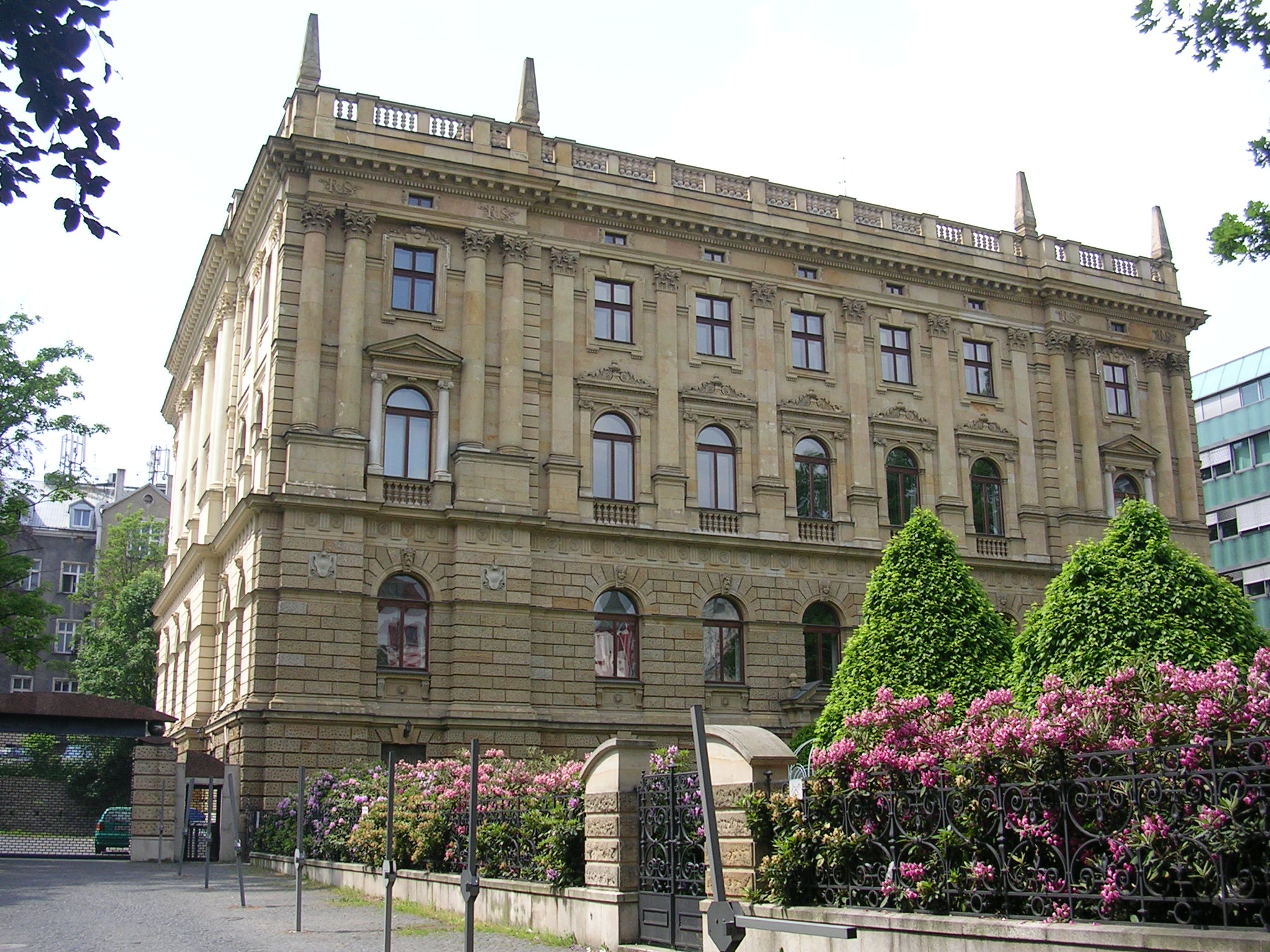 Liberec. The Czech Republic.